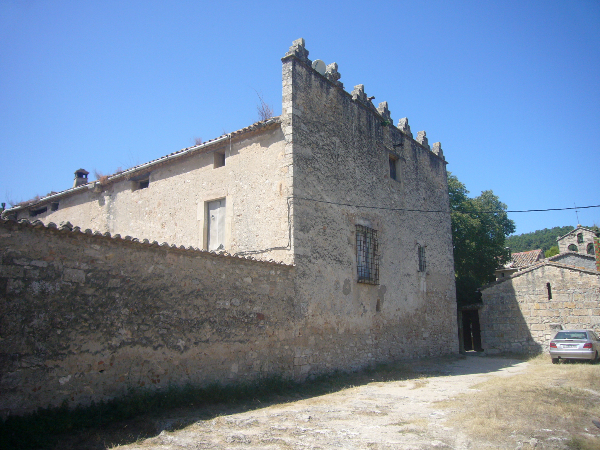 Castle located in Cabrera d'Anoia